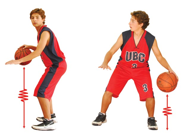 basketball